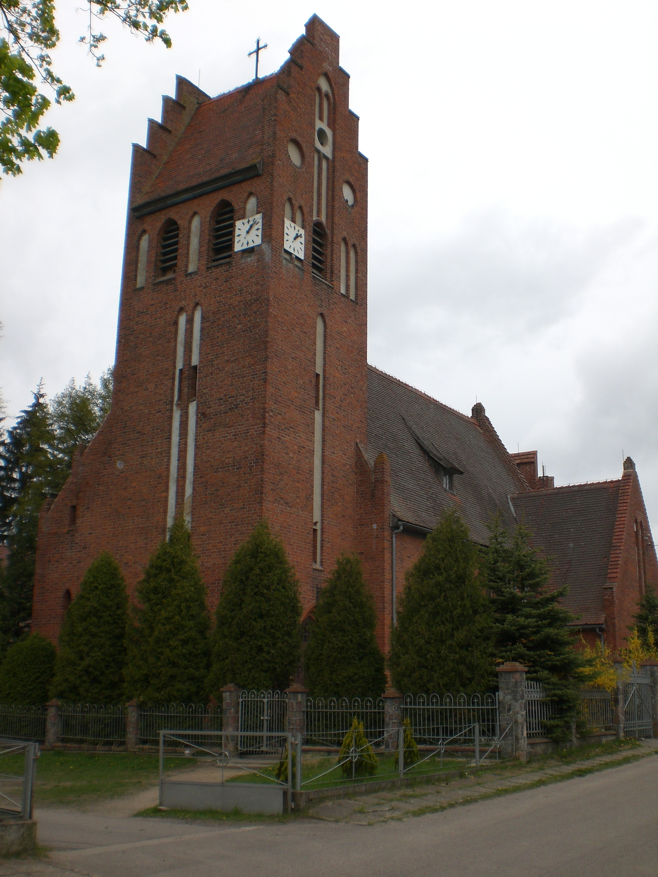 Church of the Visitation in Hopowo